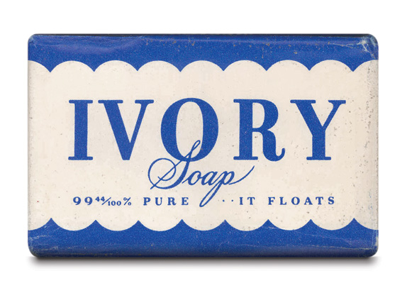 Ivory Soap circa 1954